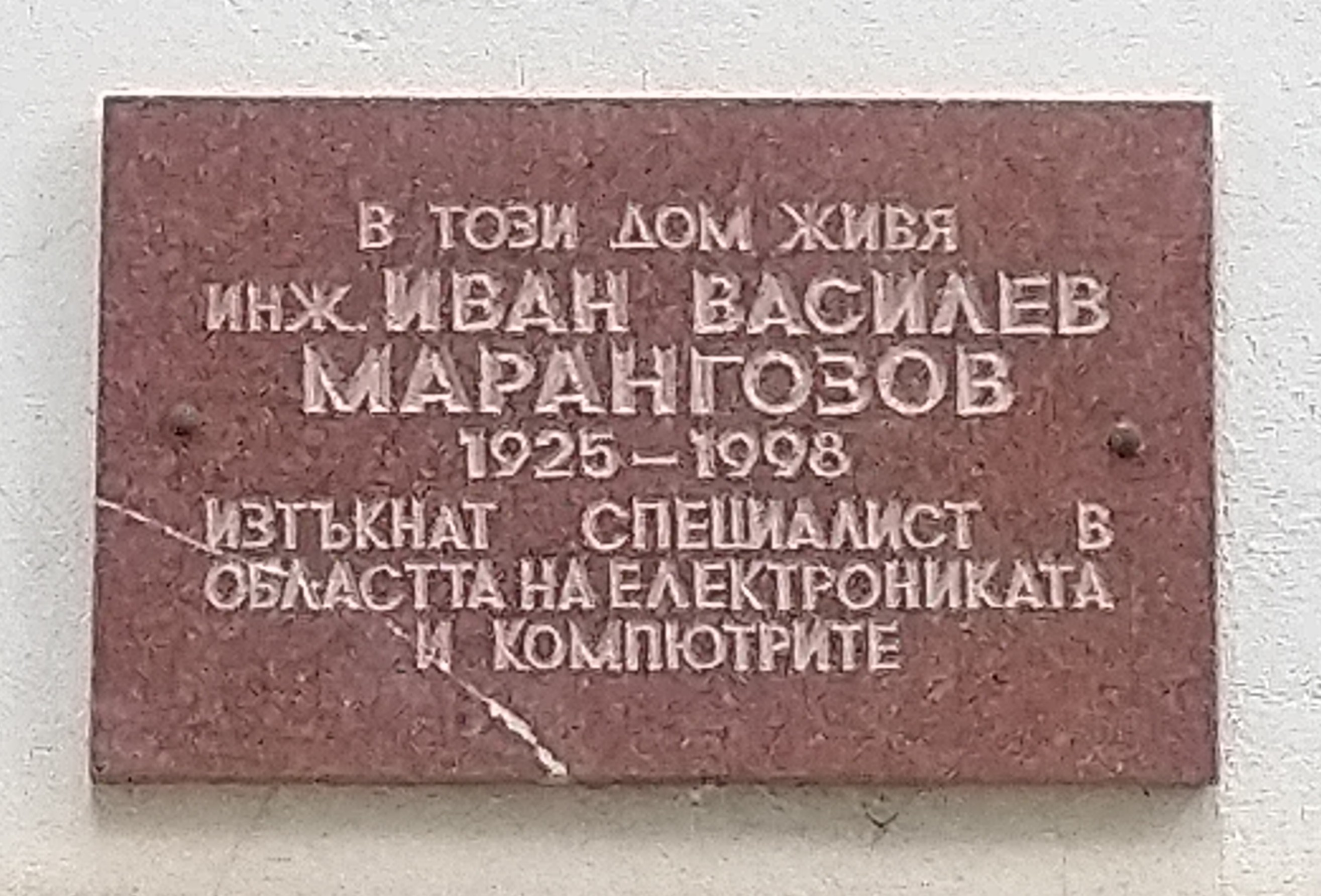 Паметна плоча на инж. Иван Марангозов, ул. Любен Каравелов 66, София